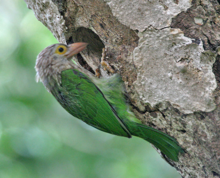 Lineated Barbet Megalaima lineata in Kolkata, West Bengal, India.